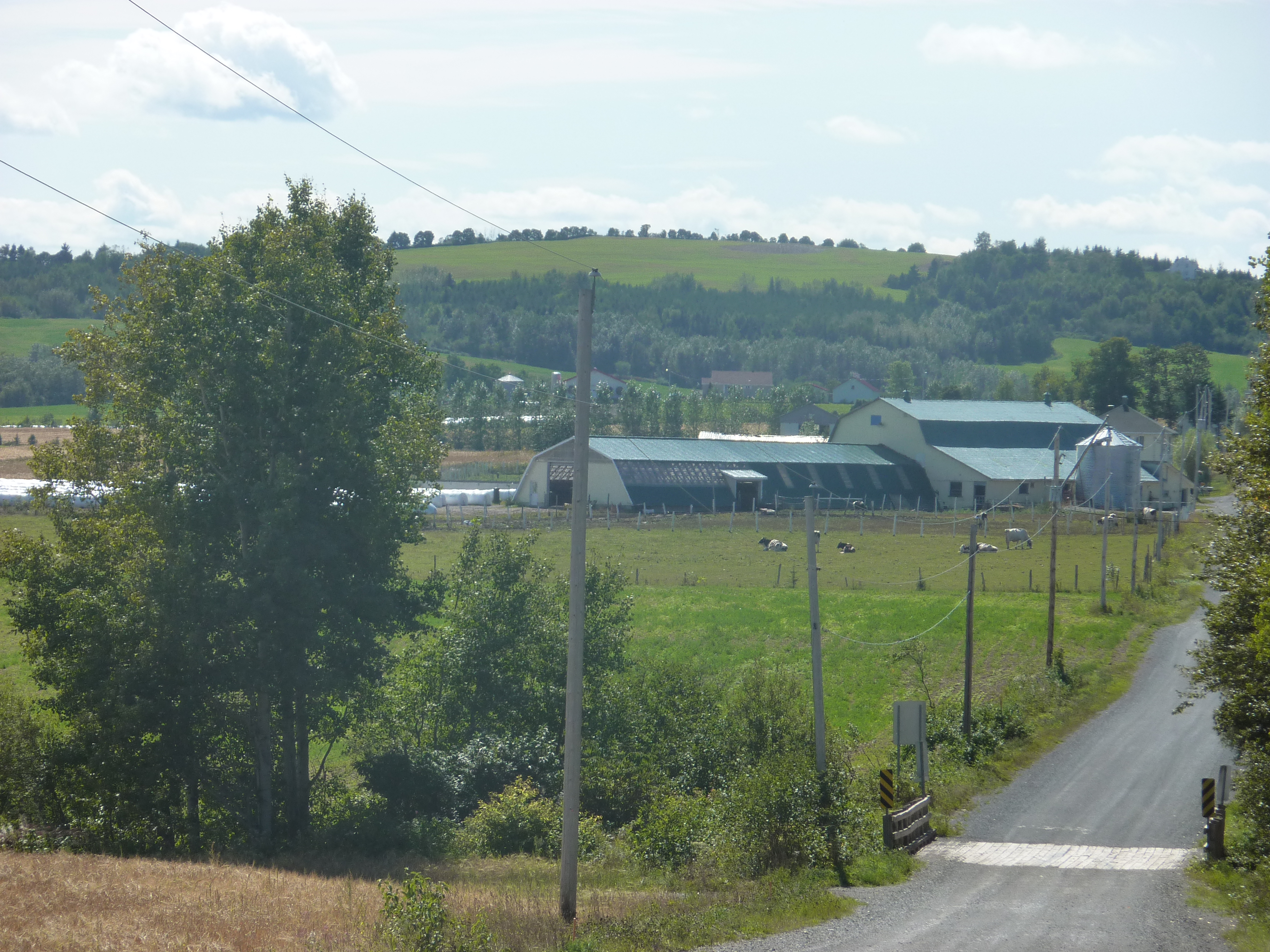 Farm at Saint-Damase, Qc in La Matapédia (RCM)